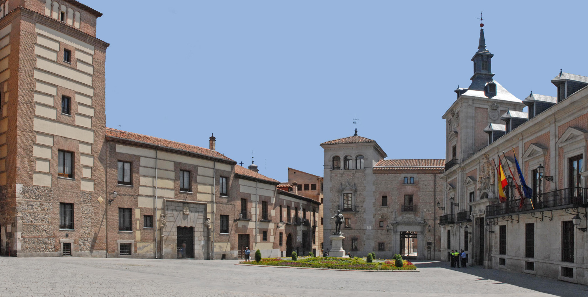 View of Plaza de la Villa (square) in Madrid (Spain).